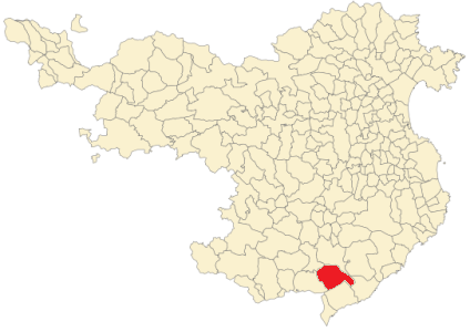 Vidreres